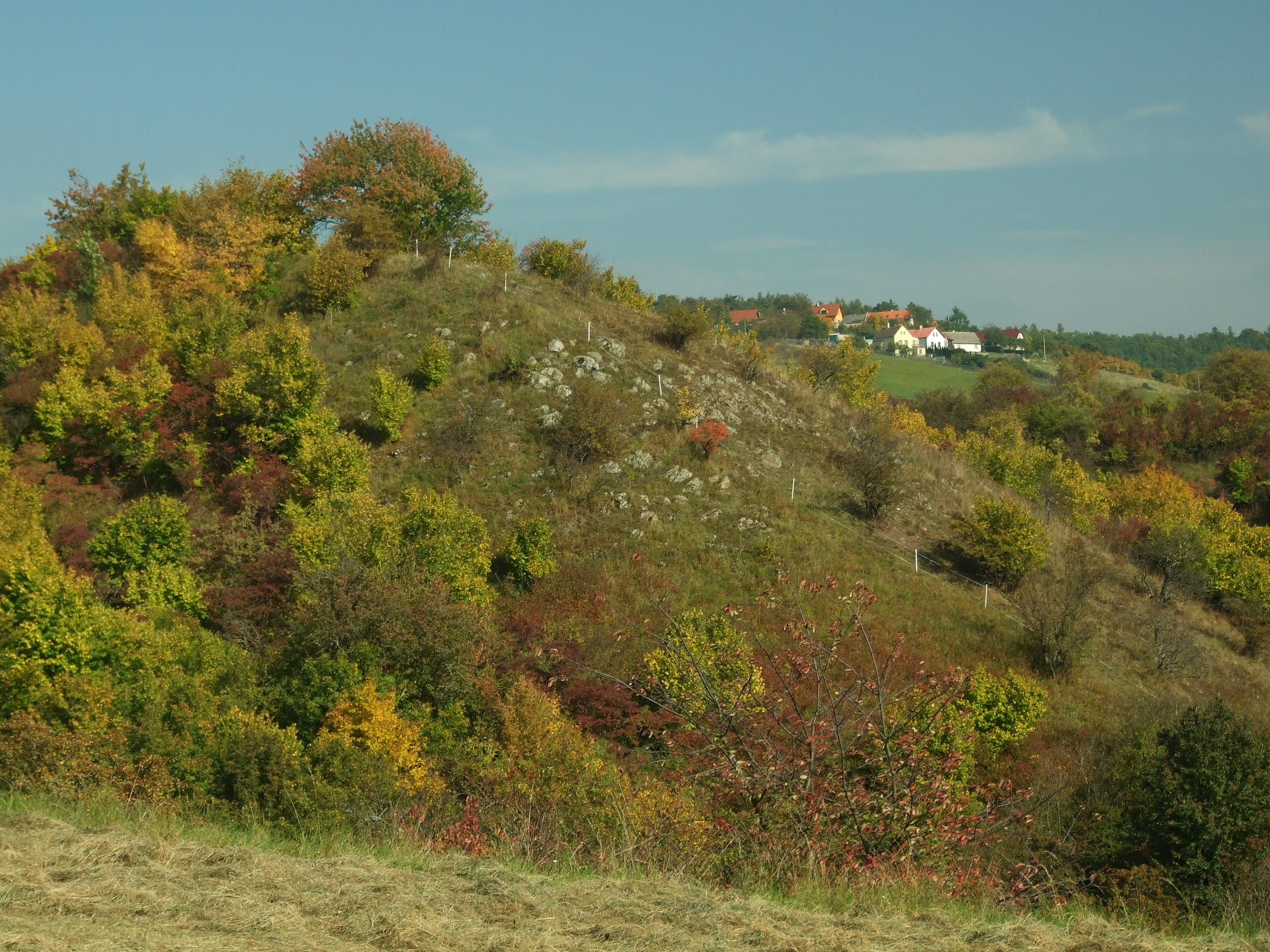 Stará Ves natural monument near Beroun. Central Bohemian Region, CZ